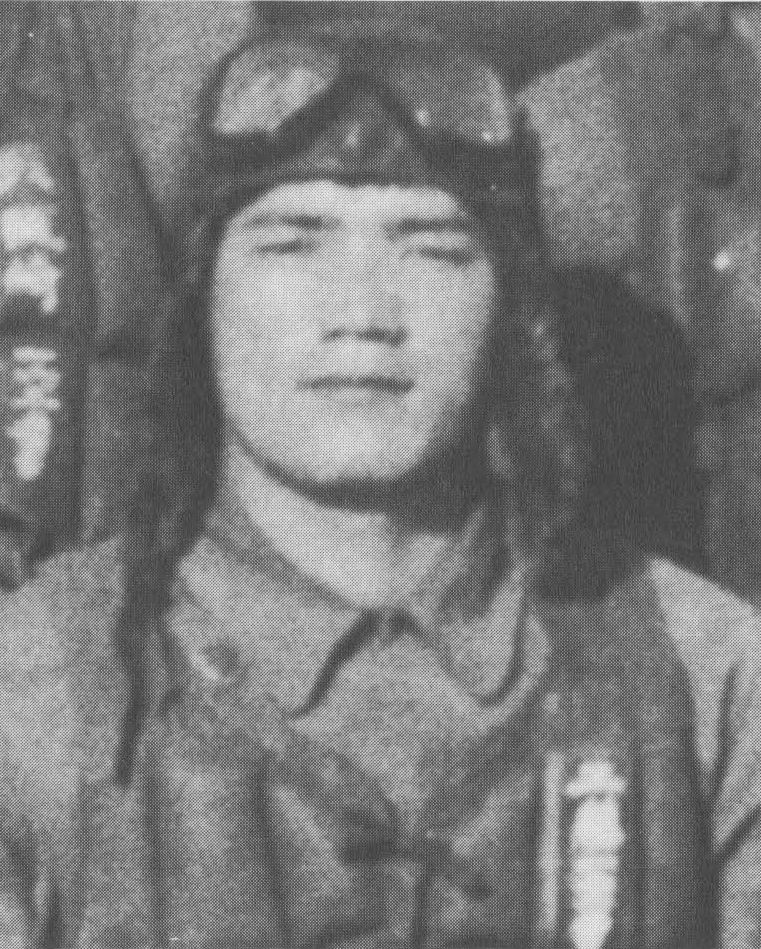 Imperial Japanese Navy fighter ace Osamu Kudō. In service in the Sino-Japanese and Pacific wars, he was credited with destroying 7 enemy aircraft. This photo was taken in 1938 or 1939 while Kudō was serving on the aircraft carrier Kaga.